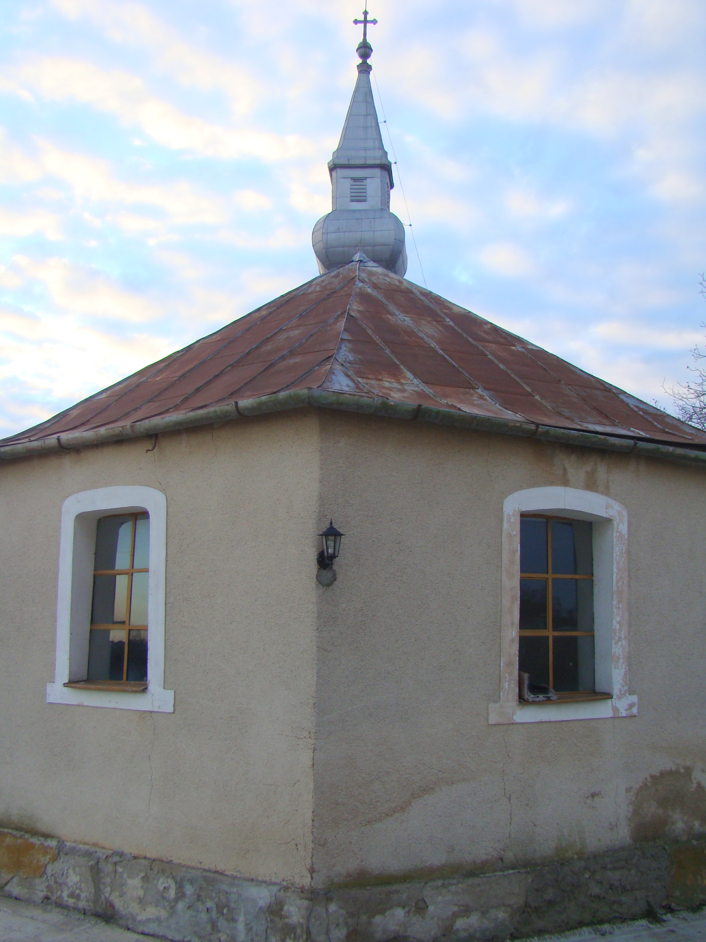 Archangels' church in Inand, Bihor county, Romania